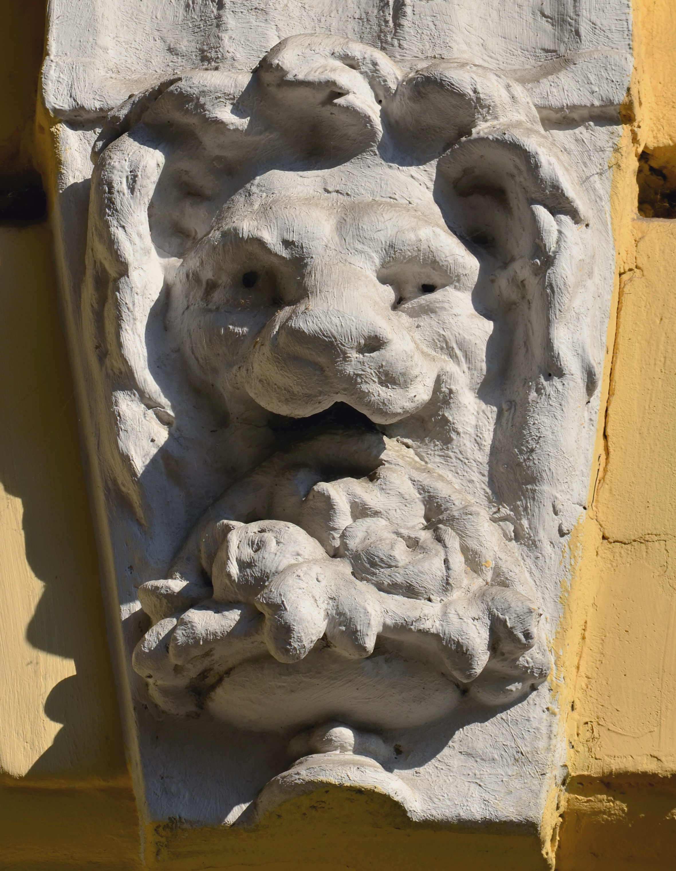 31 Pekarska Street, Lviv.